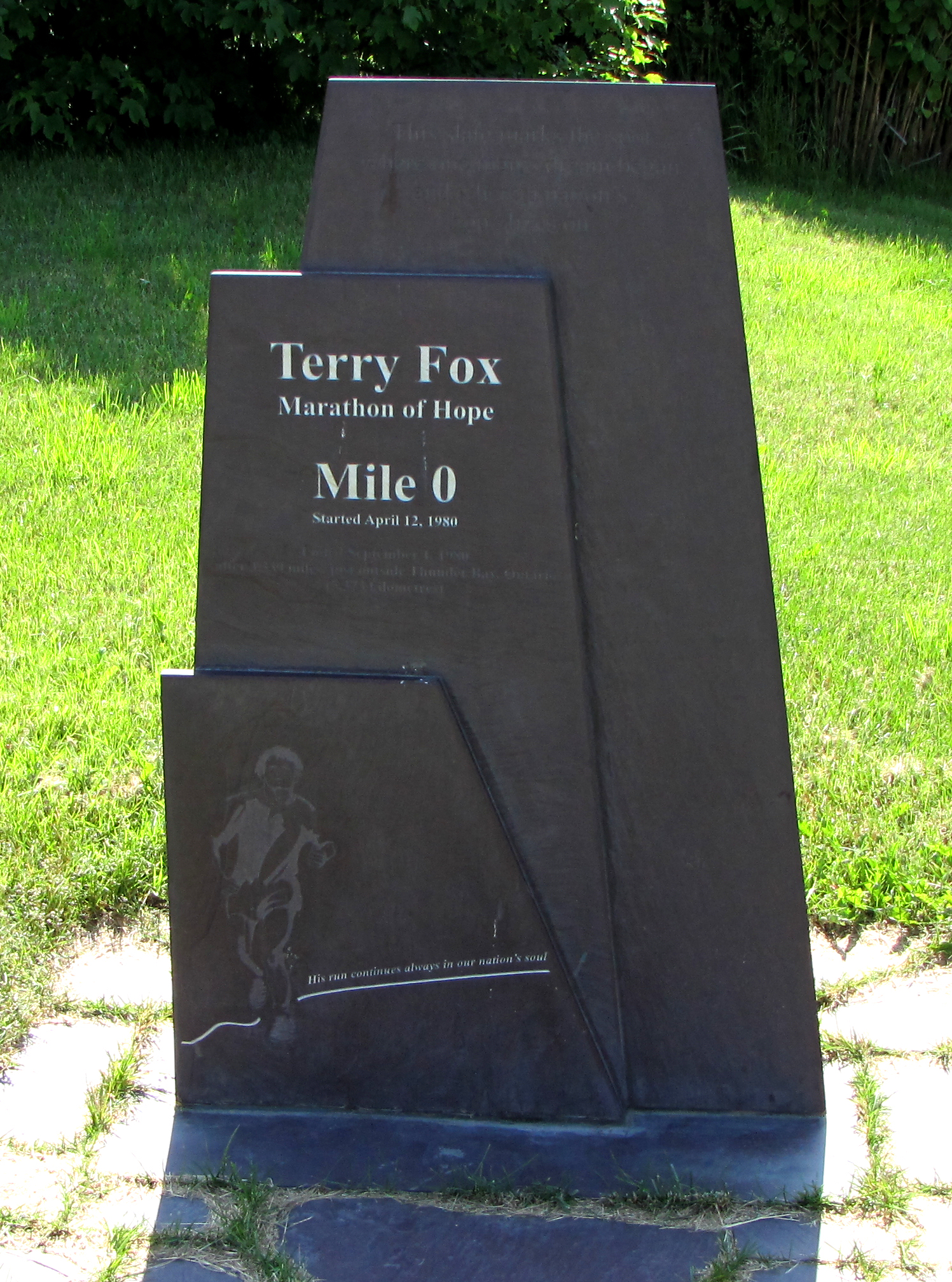 Terry Fox memorial at mile 0 of his cross-Canada run, St. John's, Newfoundland and Labrador